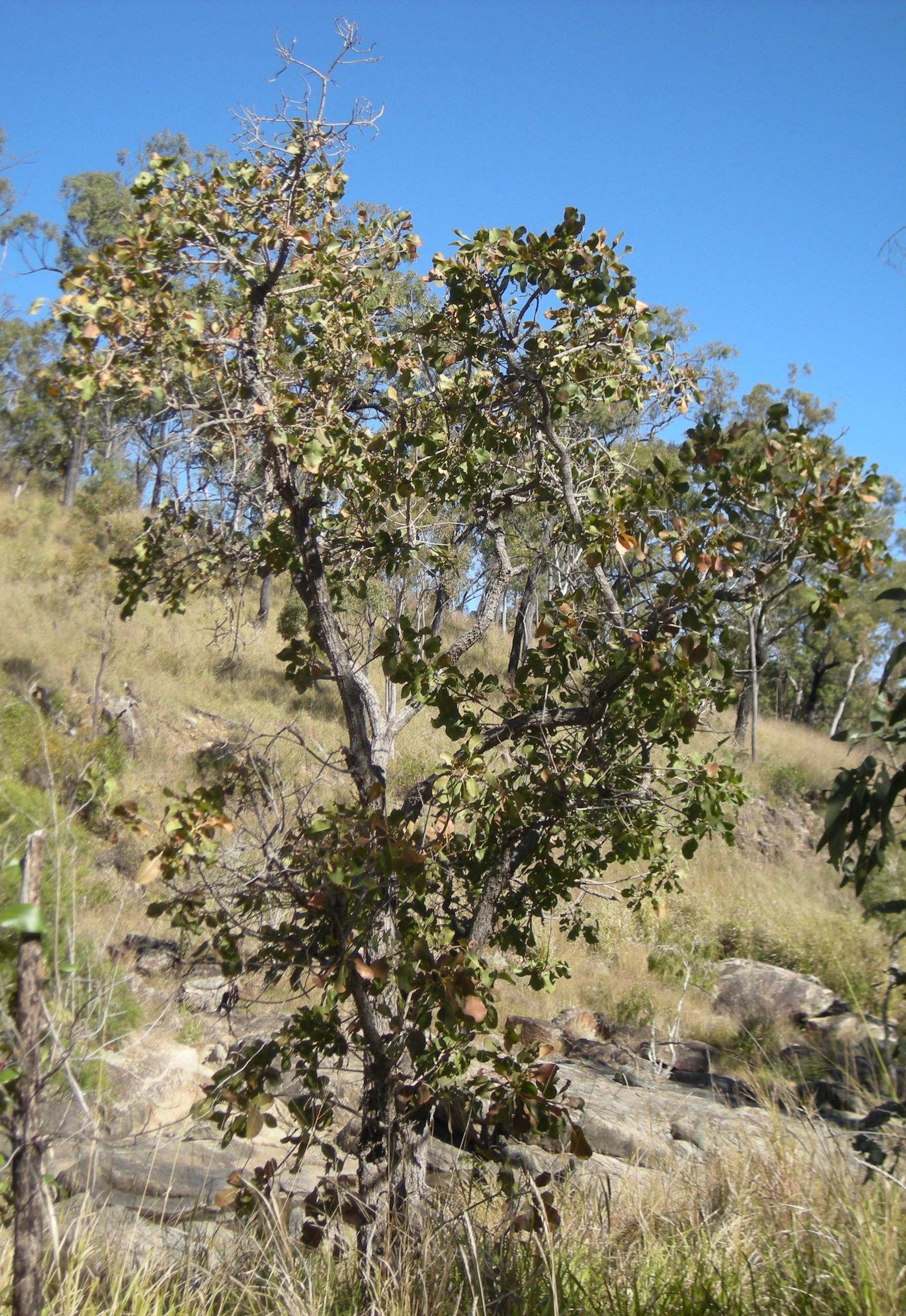 Planchonia careya tree. Mount Archer National Park, Rockhampton, Queensland.